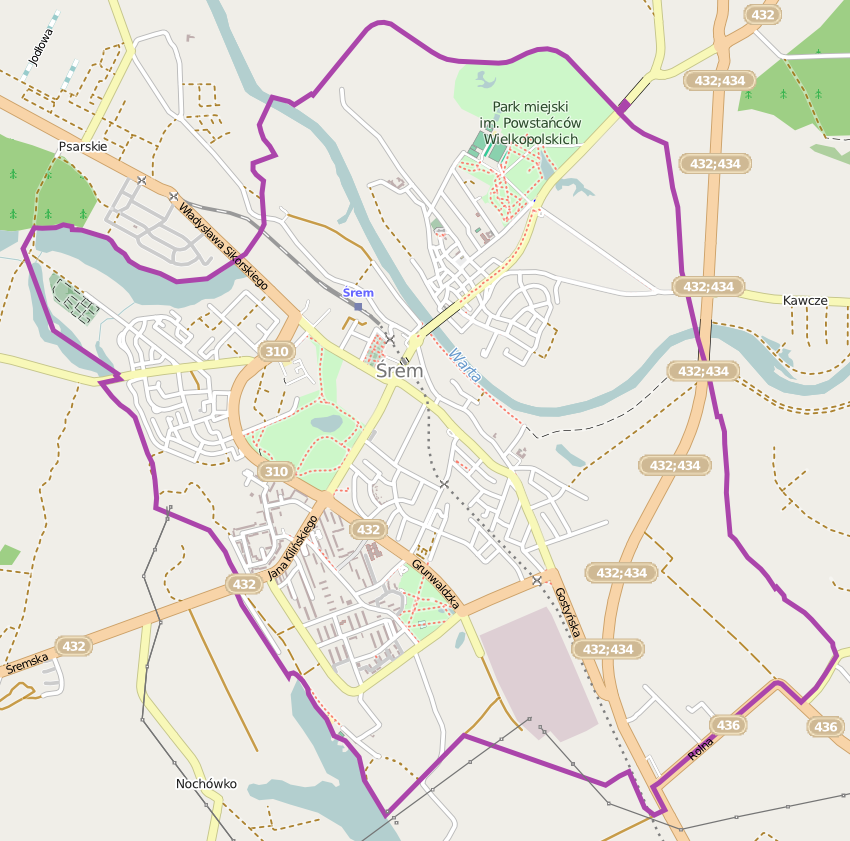 Location map of Śrem, Poland This map of Śrem was created from OpenStreetMap project data, collected by the community. This map may be incomplete, and may contain errors. Don't rely solely on it for navigation. Border coordinates52.109416.9804←↕→17.055252.0639